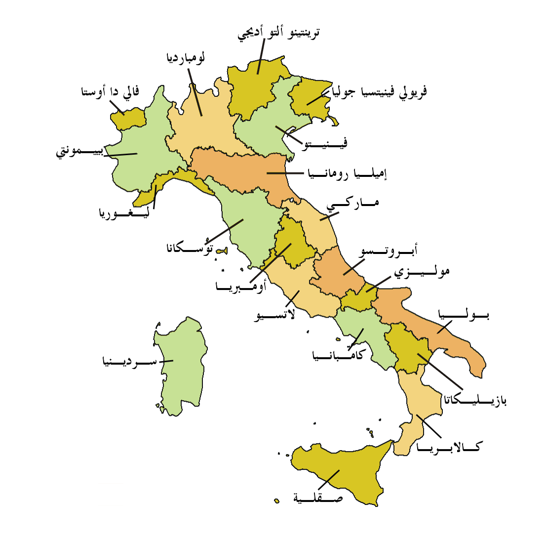 Regions of Italy with official names in arabic translated by User:Zakaria55